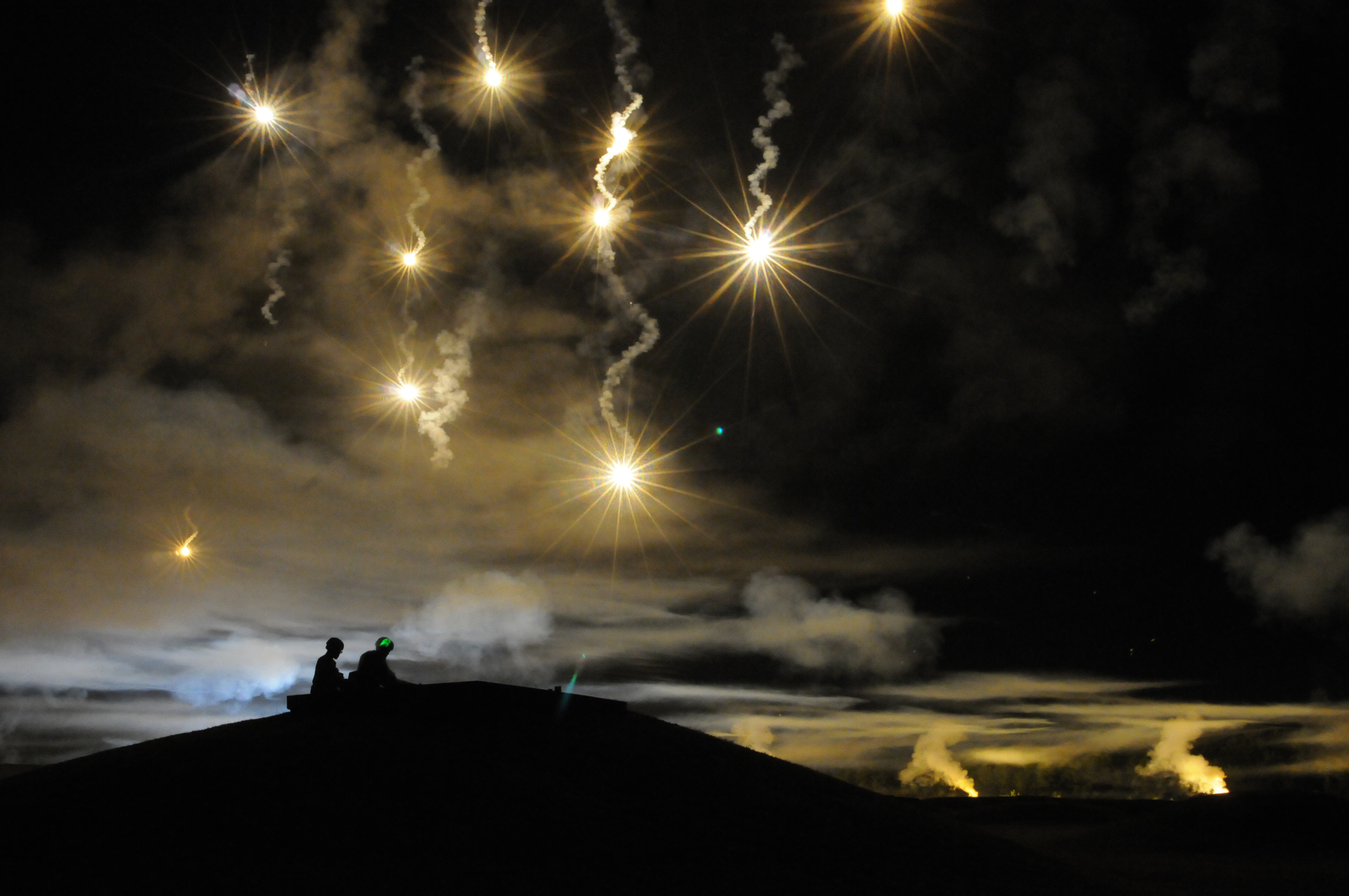 Participants in the Department of the Army Best Warrior Competition fire at targets as the night sky is illuminated with simulated munitions, adding a breath of realism to the night-fire event. The competition was held at Fort Lee, Va.